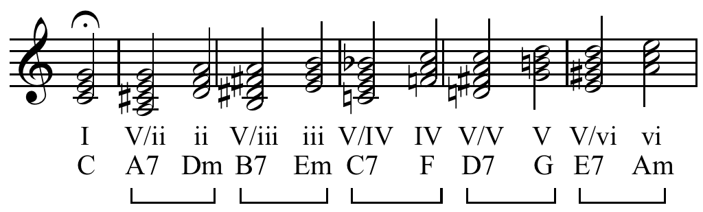 Music notation: the secondary dominant seventh chords in the key of C major Image file created with Sibelius software by Opus33. This music was not composed by anyone, but is simply a sequence of chords used to illustrate a point about musical harmony. The image is not copyrighted, and it is hereby released by Opus33 into the public domain.